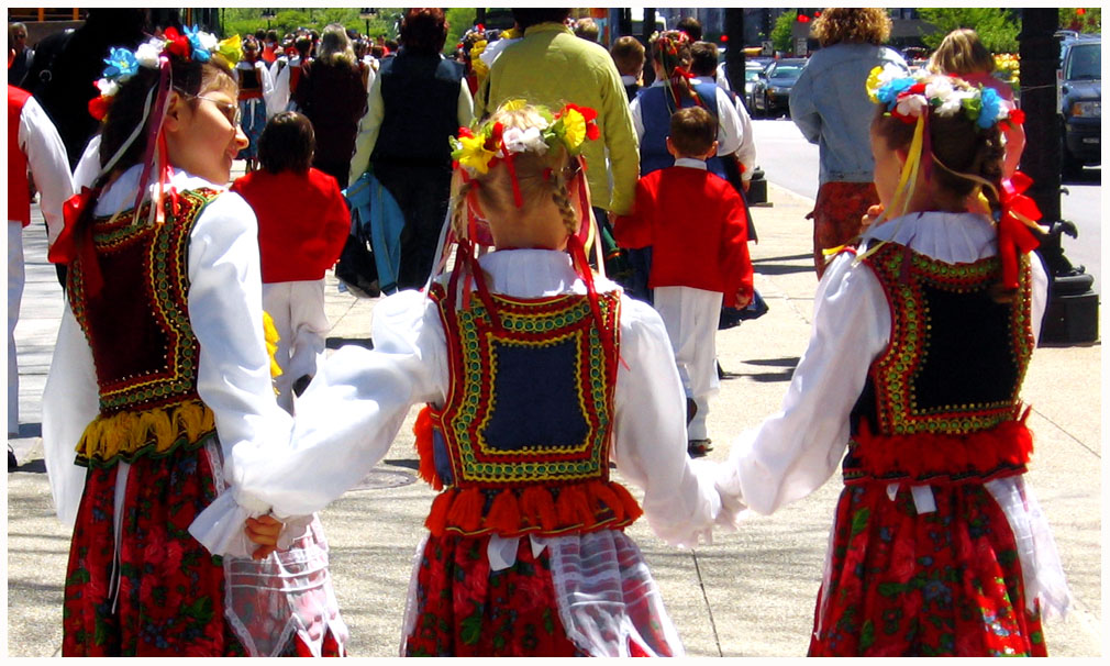 Chicago, Polish girls dressed in traditional outfits